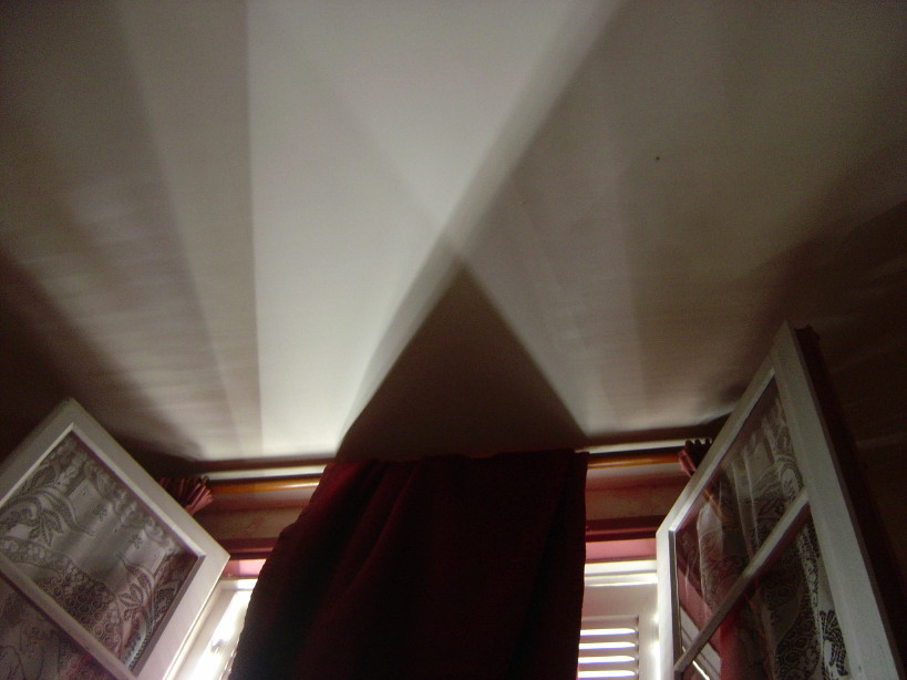 Example of antumbra using window and shutters